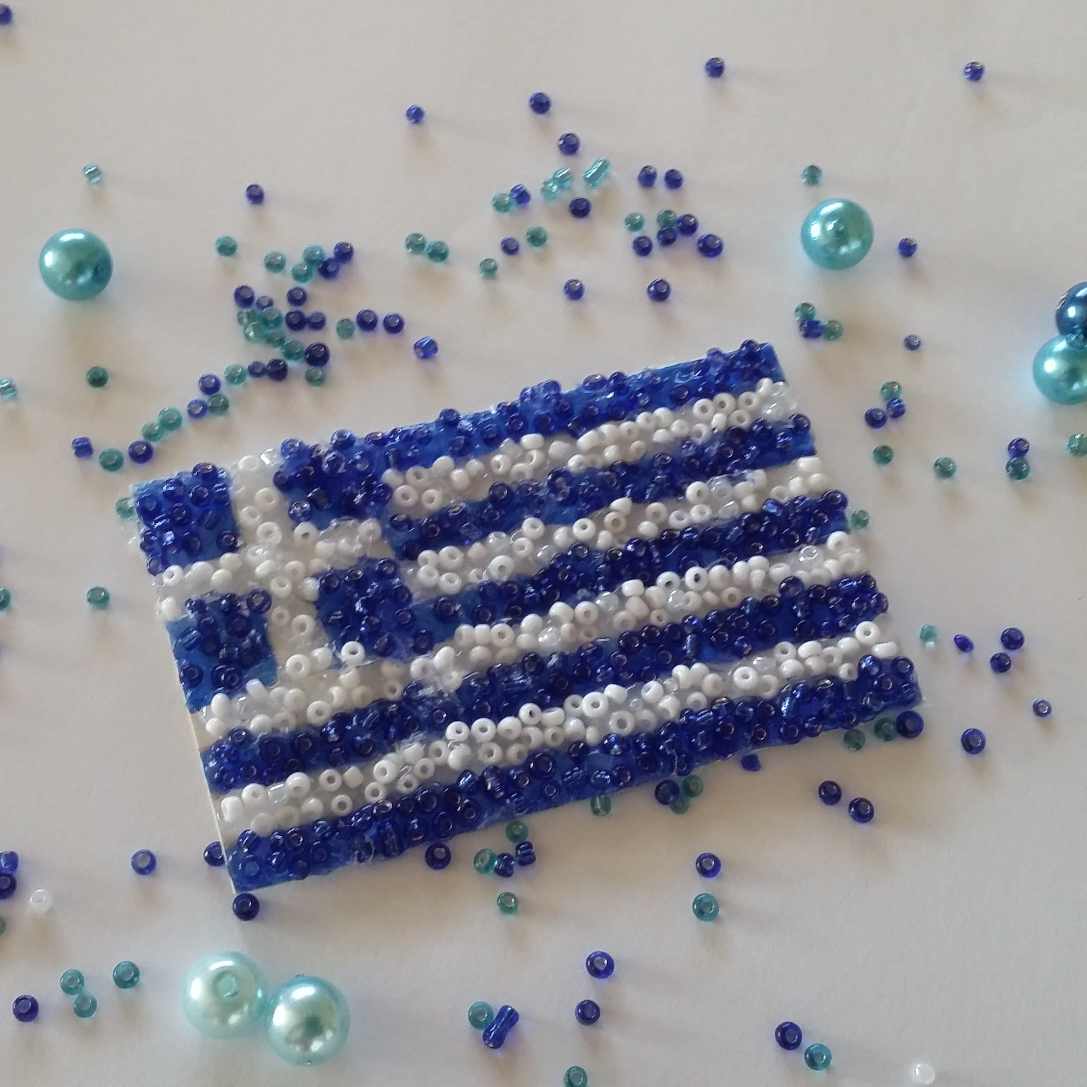 Greek flag made of seed beads